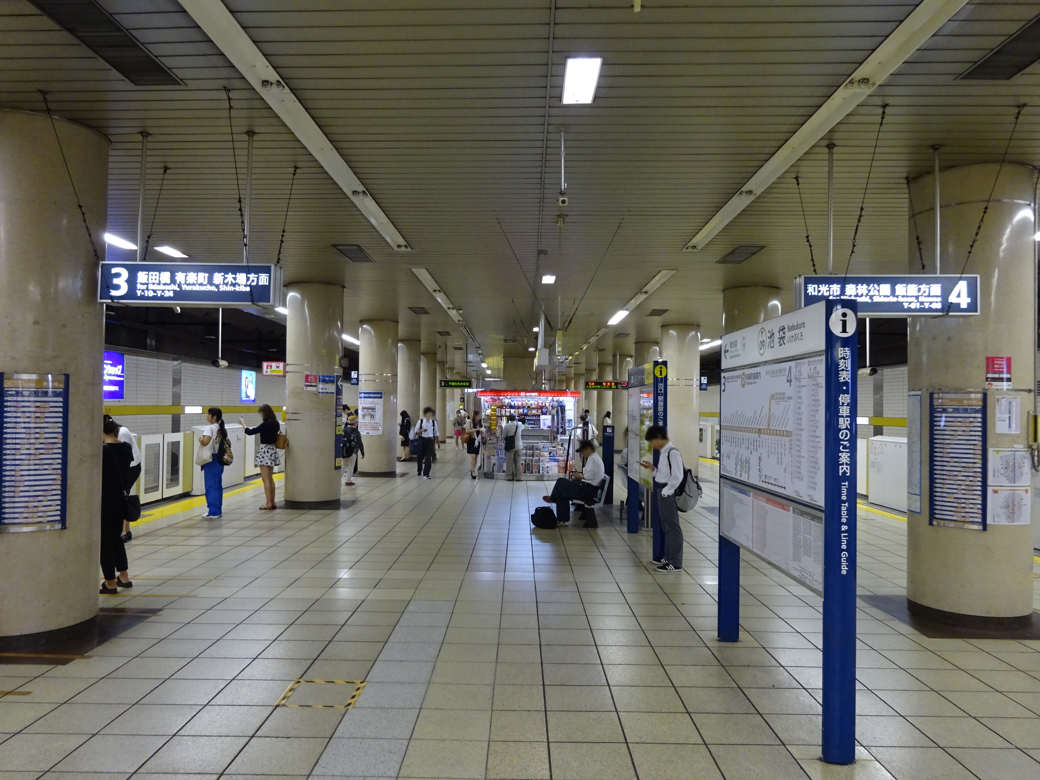 The Tokyo Metro Yurakucho Line platforms at Ikebukuro Station in Tokyo, Japan